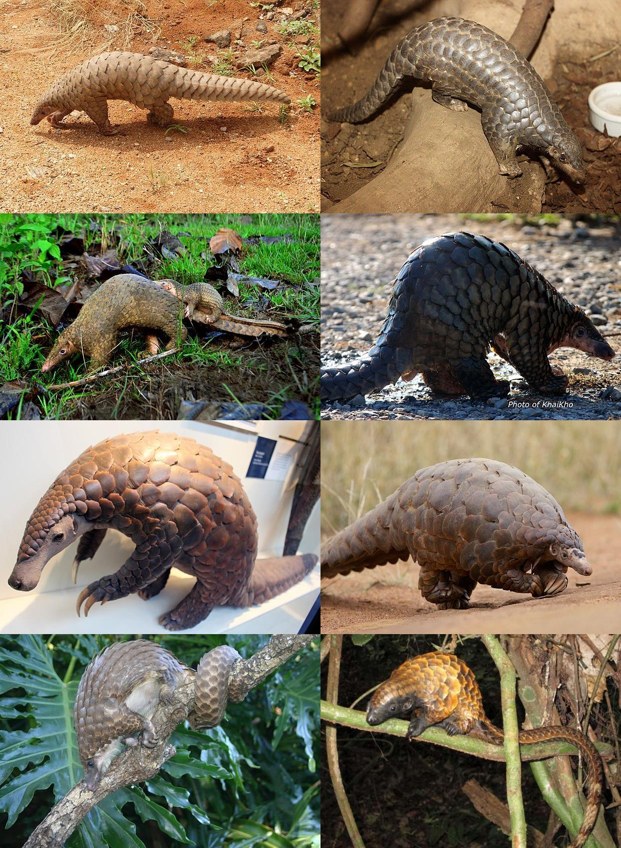 Species from family Manidae.